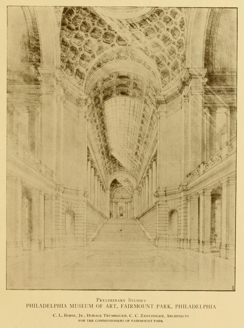 Preliminary Studies, Philadelphia Museum of Art, Fairmount Park, Philadelphia (unsigned, possibly drawn by Julian Abele).